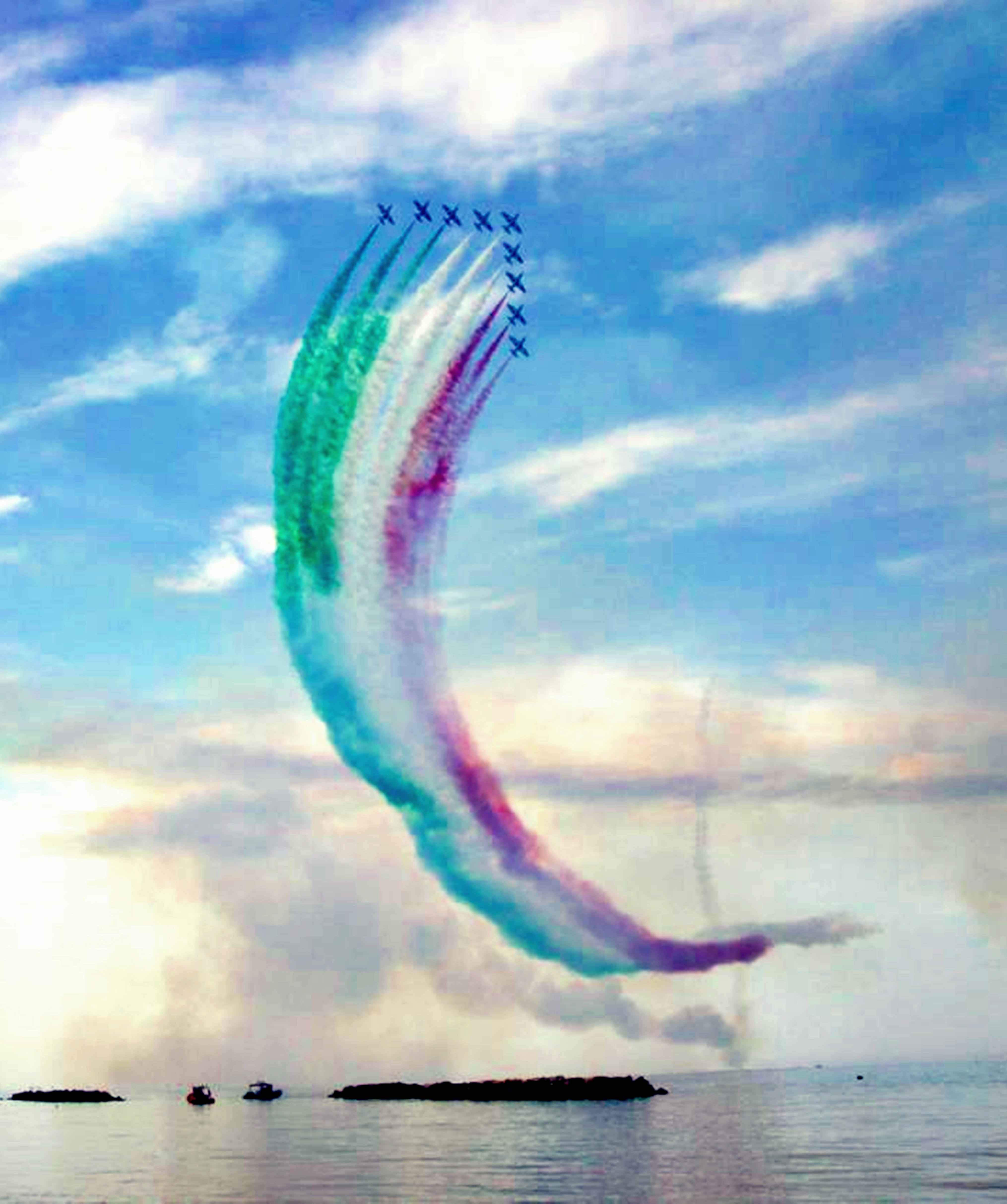 Frecce Tricolori at the San Benedetto del Tronto Air Show.